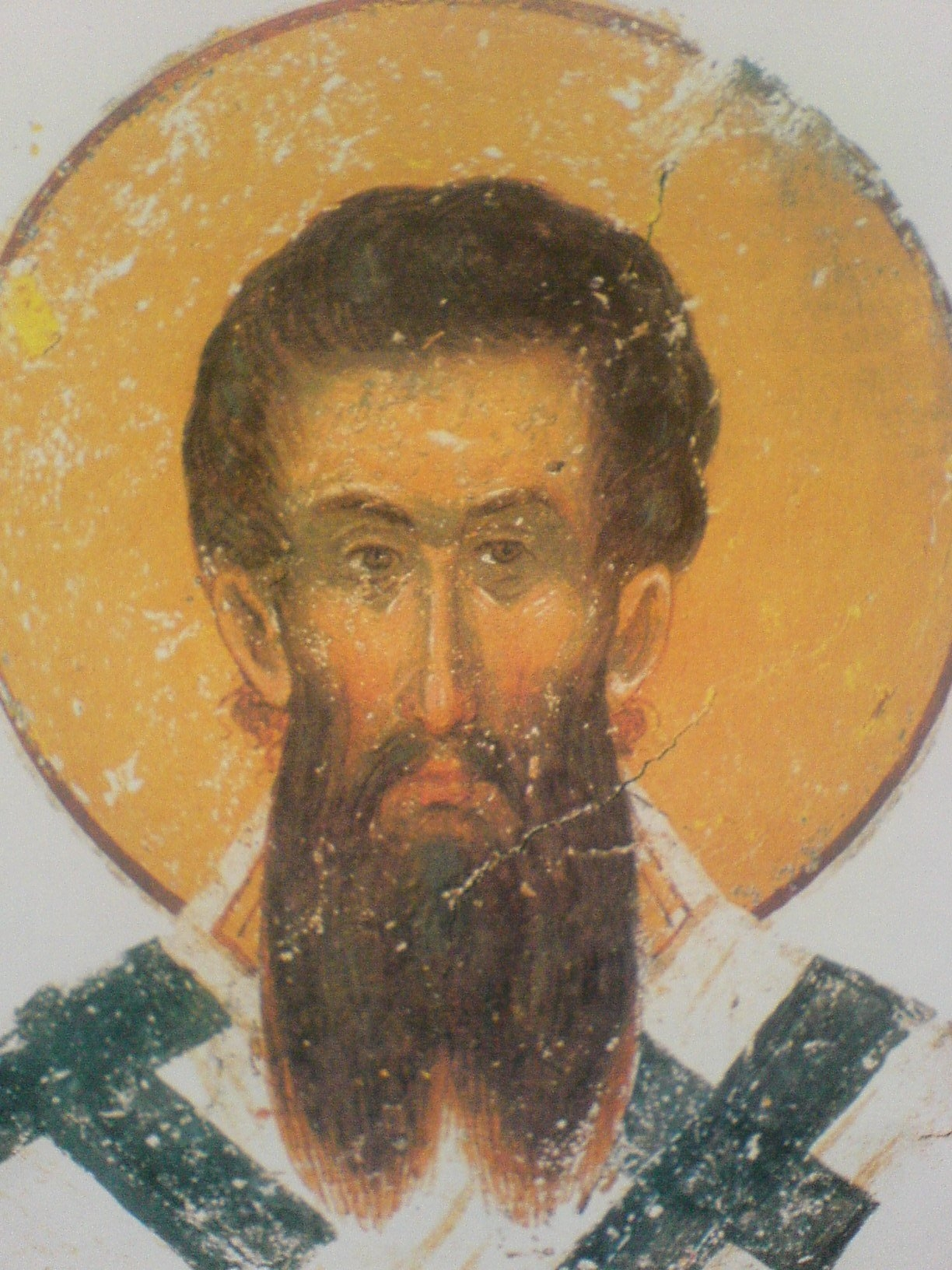 Fresco of Gregor Palamas